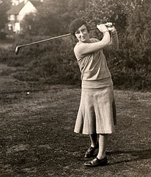 simone de la chaume